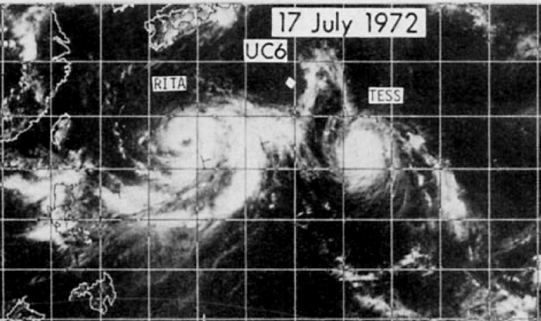 Satellite image of Typhoons Rita and Tess on July 17, 1972